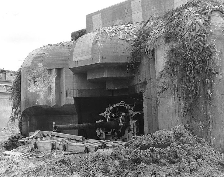 German gun emplacement in Cherbourg, Manche, France.